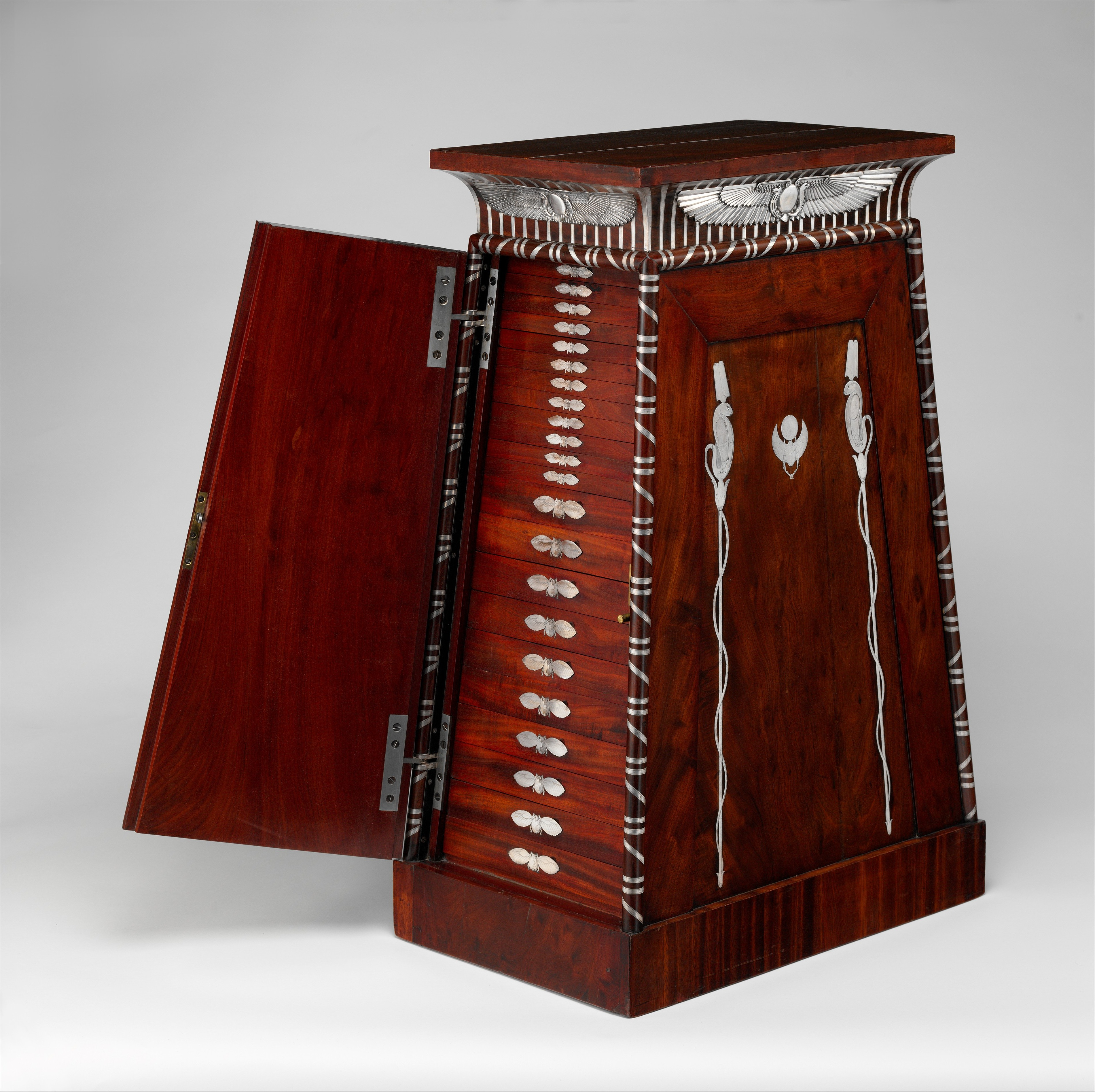 French, Paris; Coin cabinet; Woodwork-Furniture